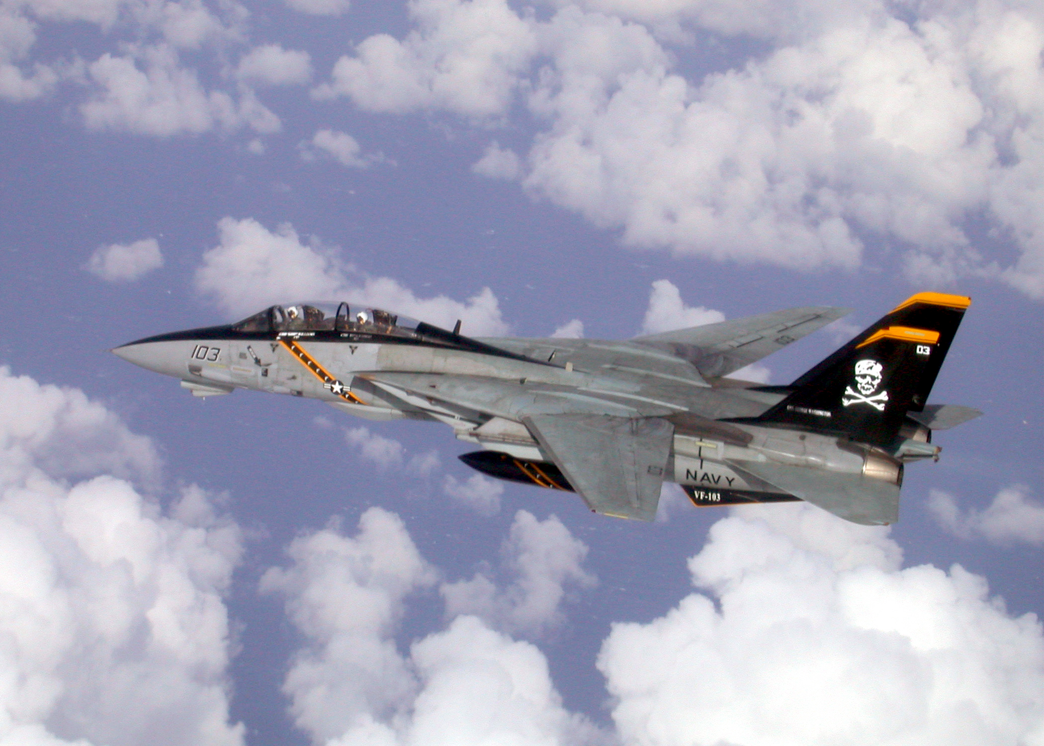 At sea with USS George Washington (CVN 73) Oct. 14, 2002 -- The show bird from the “Jolly Rogers” of Fighter Squadron One Zero Three (VF-103) flies alone over the Mediterranean Sea. The Washingon, homeported in Norfolk, Va., is participating in the NATO exercise “Destined Glory ‘02” in the Mediterranean Sea as a part of her regularly scheduled deployment. U.S. Navy photo by Capt. Dana Potts. (RELEASED)